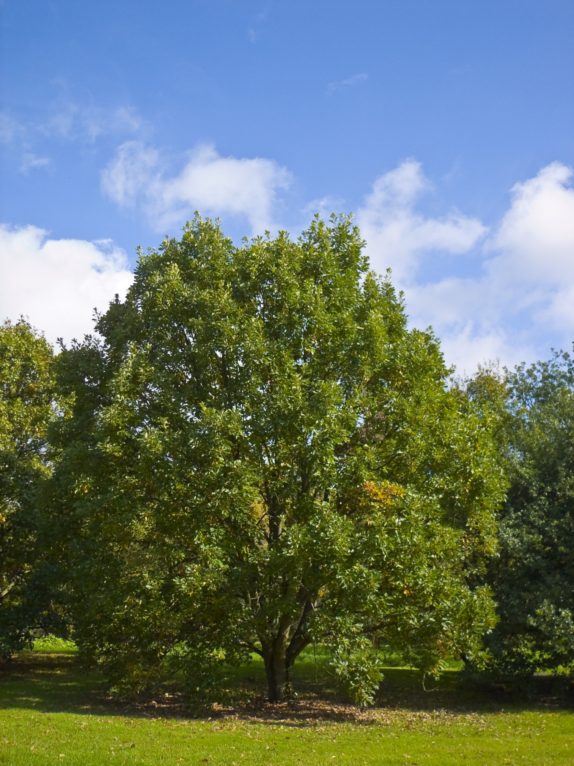 Swamp White Oak (Quercus bicolor) in the New Botanical Garden Marburg, Hesse, Germany